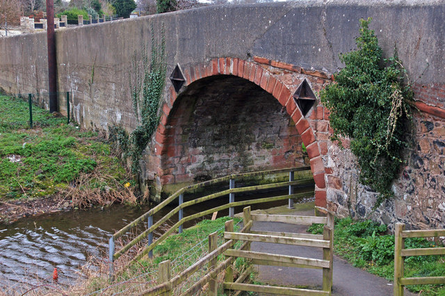 Canal bridge (road) at Moira See 360203. This is the bridge carrying the Station Road 360112 across the disused Lagan navigation. The view is towards Lough Neagh.